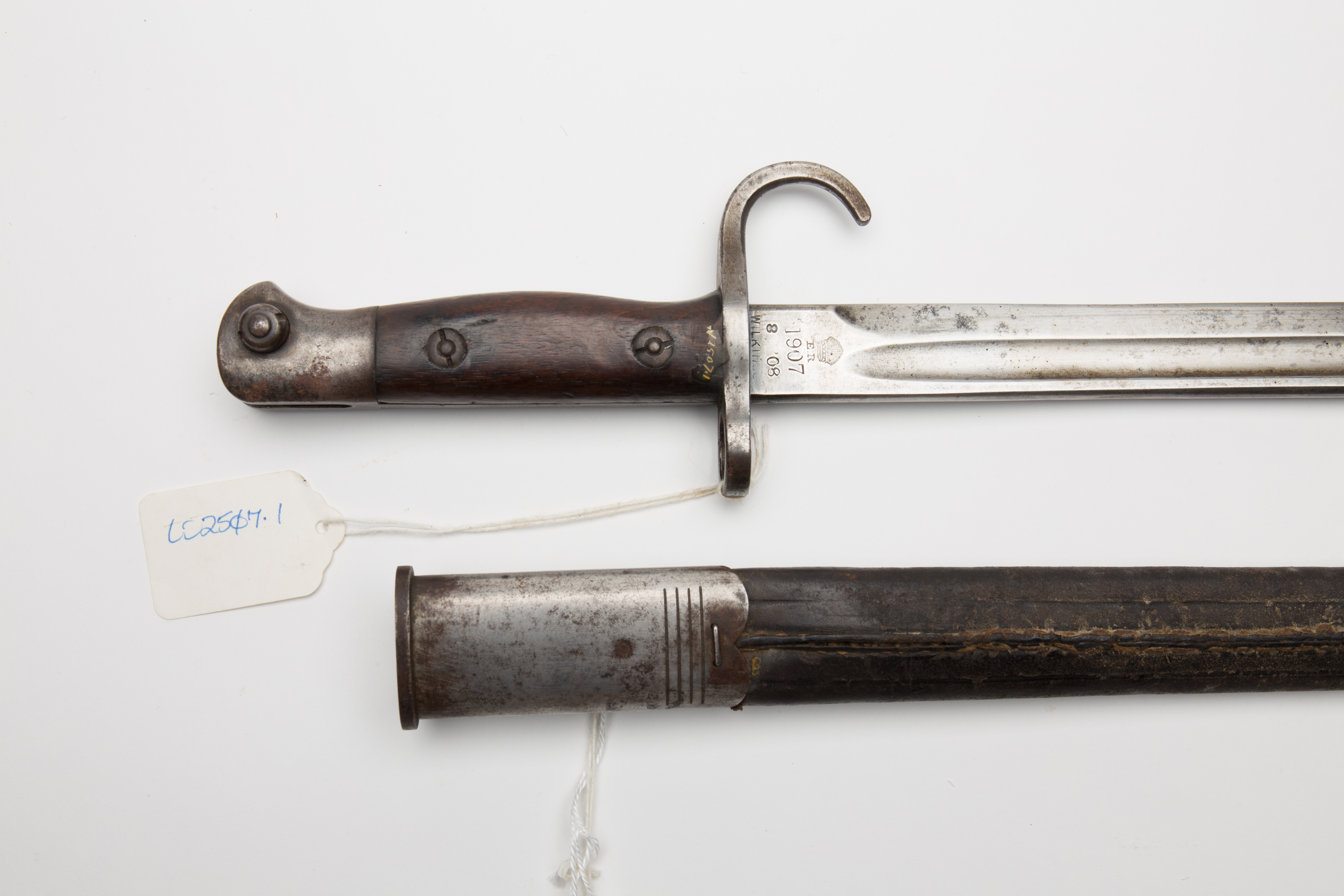 British Pattern 1907 bayonet for SMLE No 1; with leather scabbard (WW1 period) maker- Wilkinson, England, August 1908 sword blade with hooked quillon; with leather scabbard markings- serial number 2662; maker's name (Wilkinson); Edward VIII reign marks- crown - ER - 1907 - 8 08; sold out of service marks; marked on grip- (crown) - ER - W